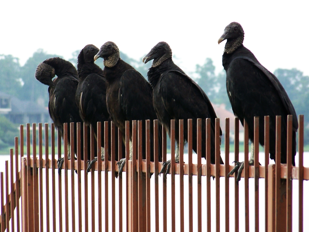 Coragyps atratus, The Woodlands, Houston, Texas